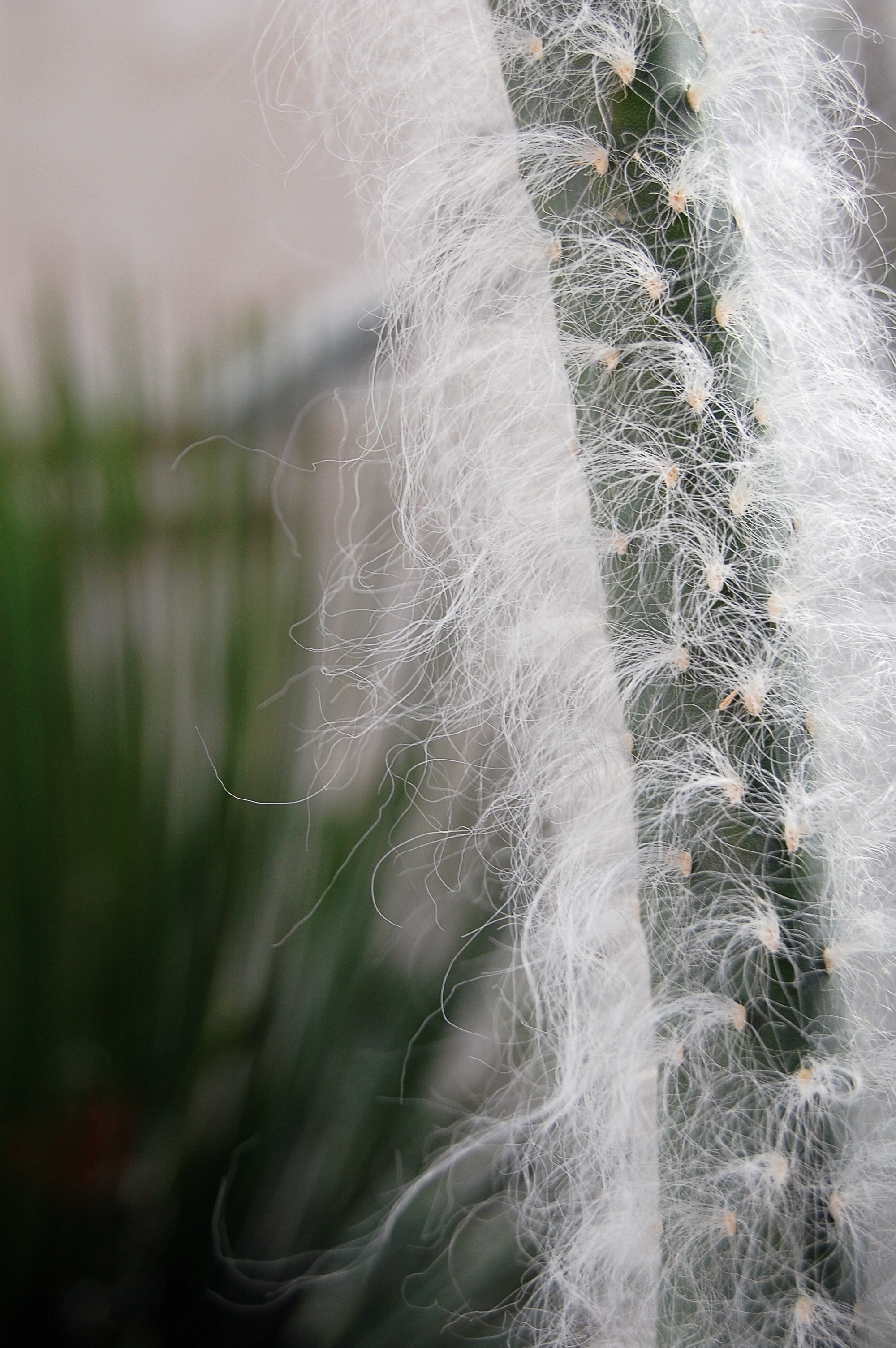 Say that three times fast. Austrocylindropuntia vestita. San Antonio Botanical Garden